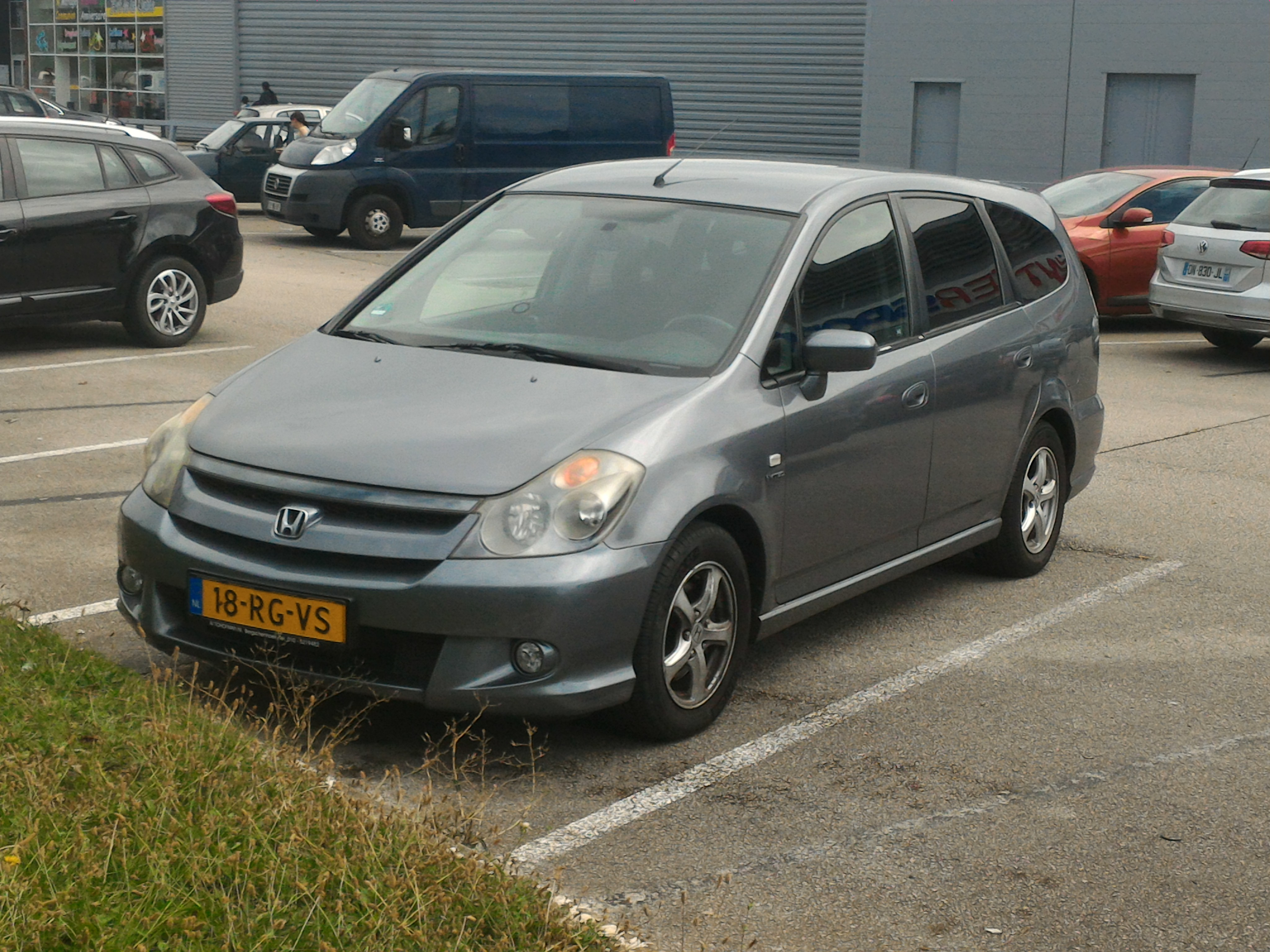 Honda Stream (1.6 125 hp) at Chalon sur Saone